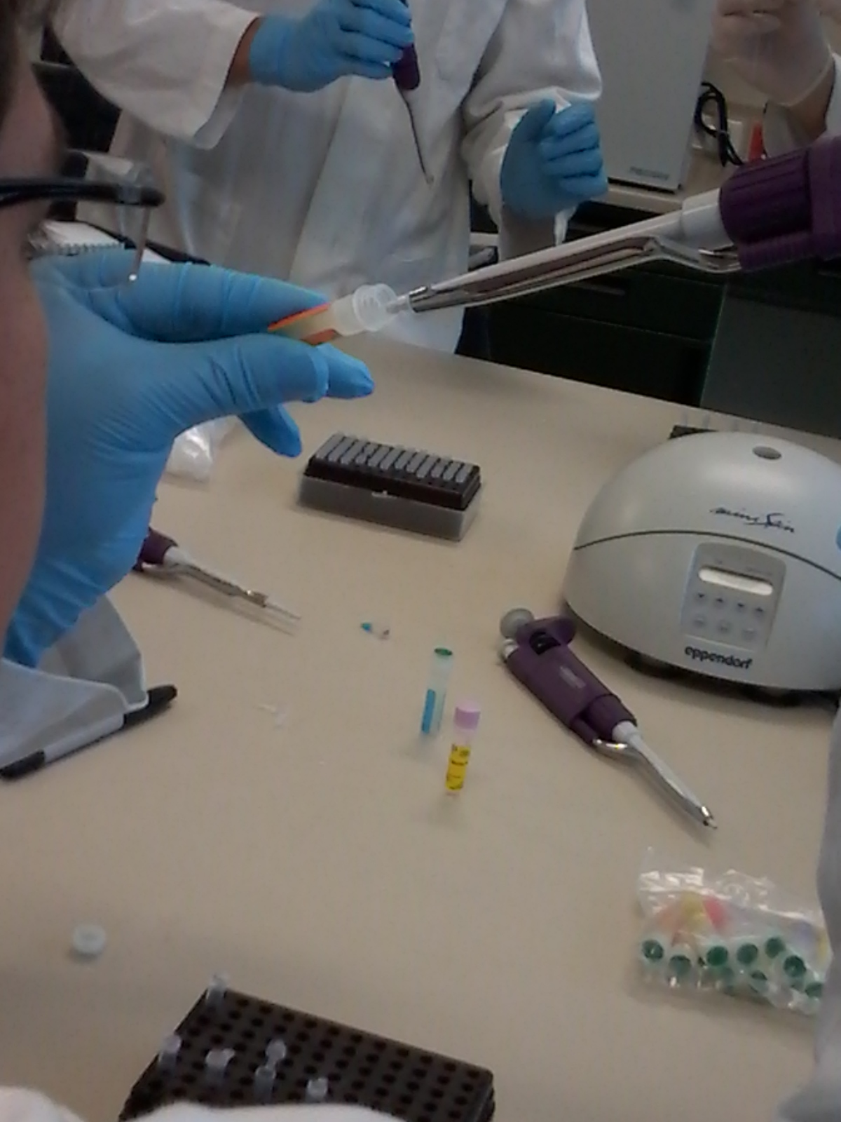 Pipetting DNA samples to prepare the Master Mix with primers and DNA samples for PCR.